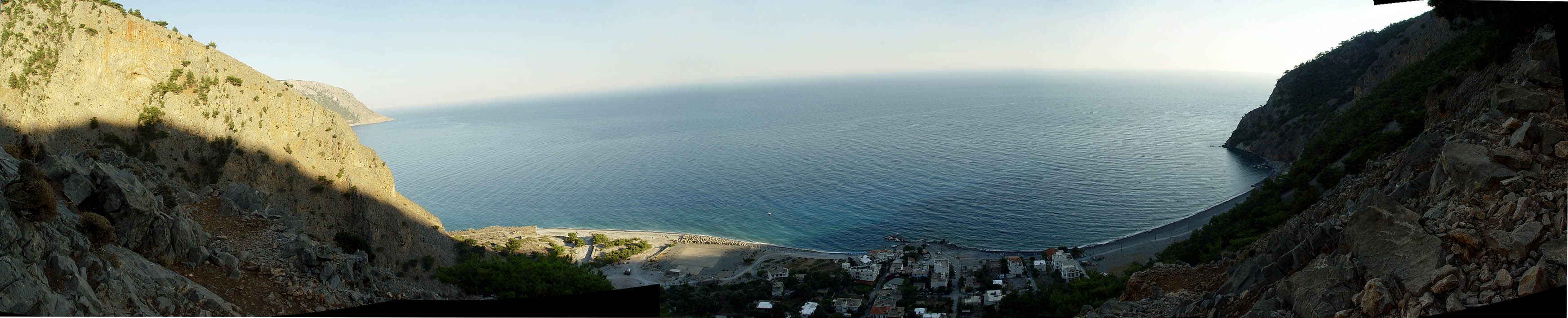 This is a panorama of Agia Roumeli in Crete created by stitching 5 photographs. Photo by alefbetac. for more photos by me.